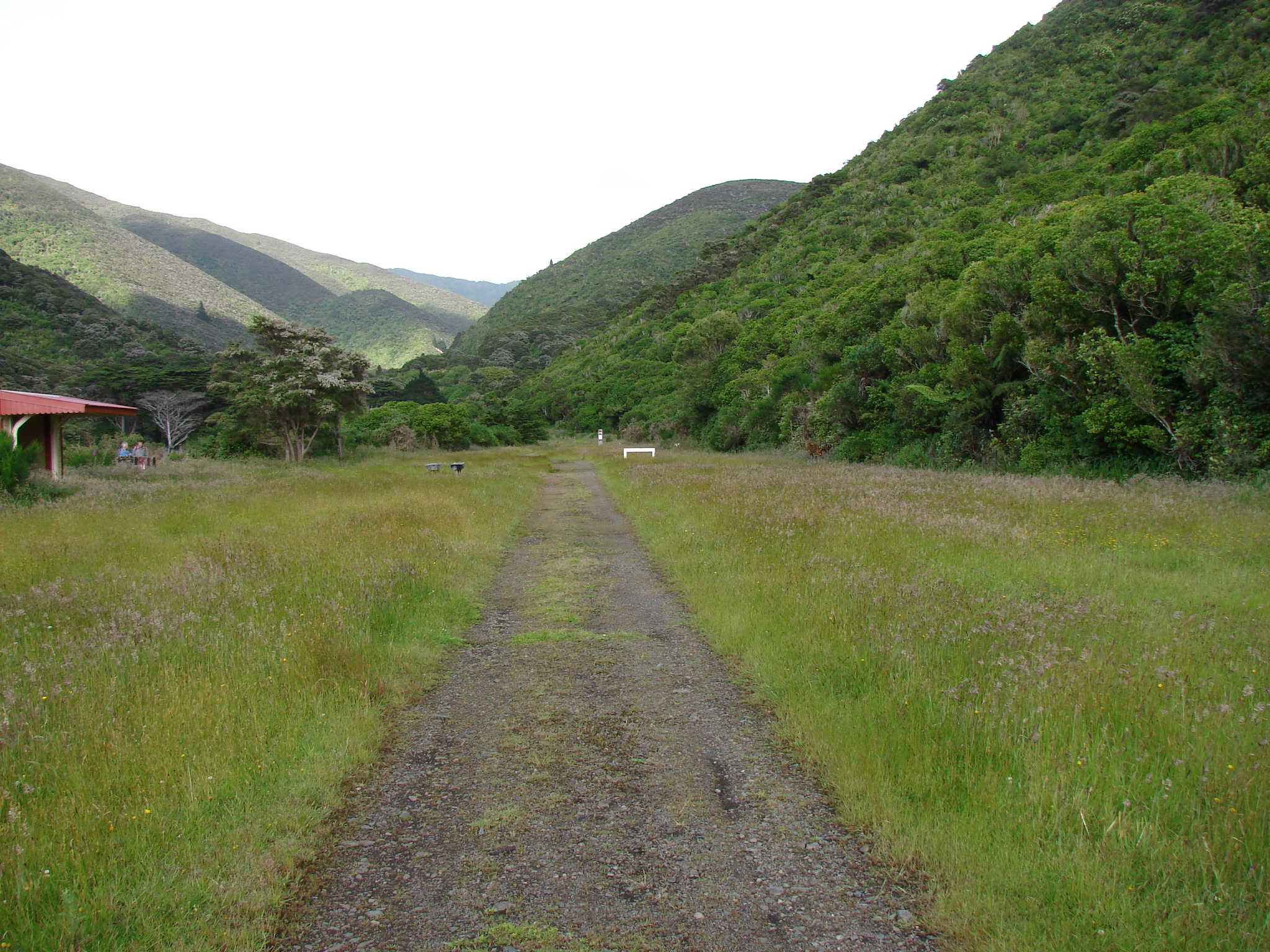 Cross Creek yard, showing start of the Rimutaka Incline and shelter shed. Photographed by Matthew25187 on 2006-12-28.